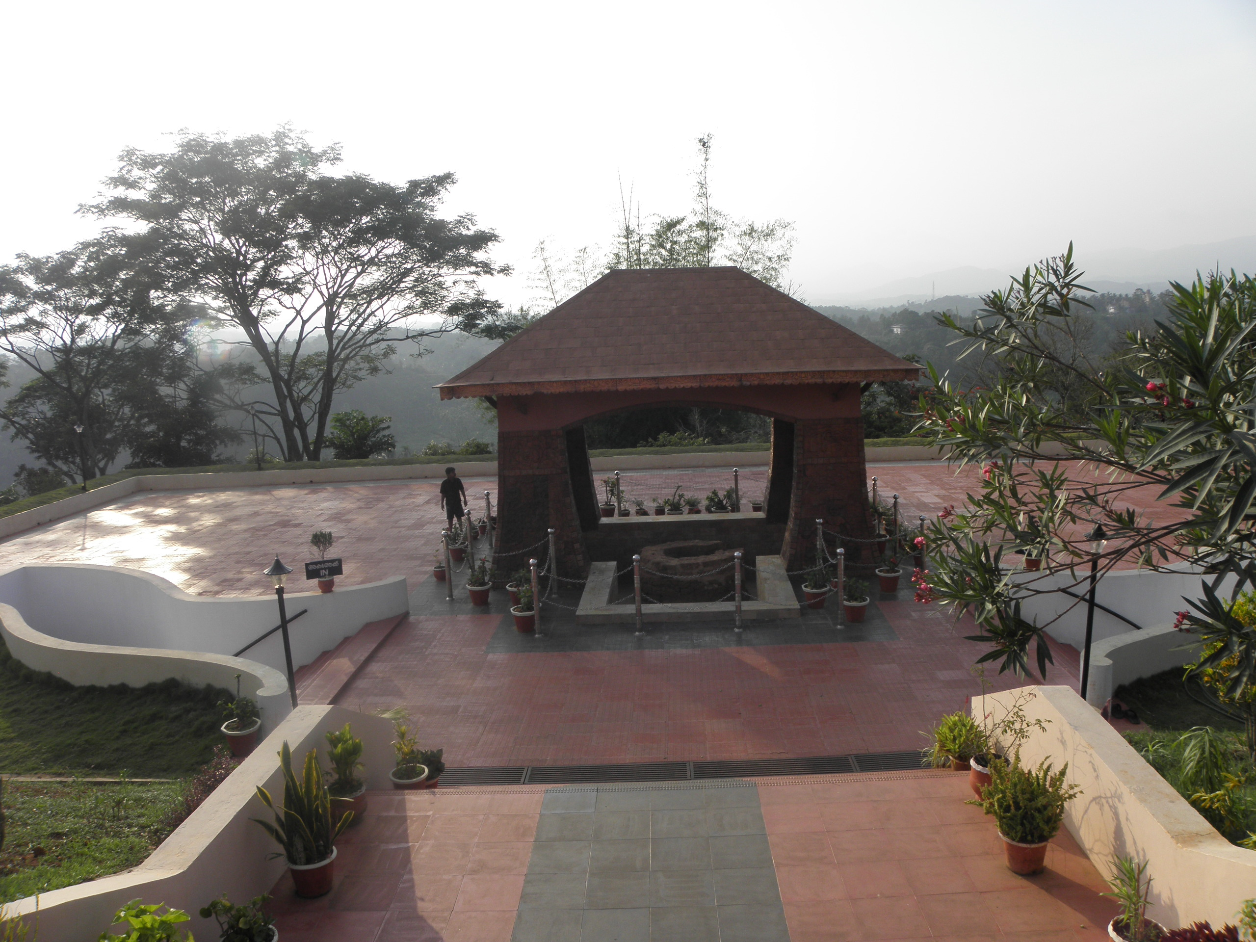 pazhzssi tomb 11